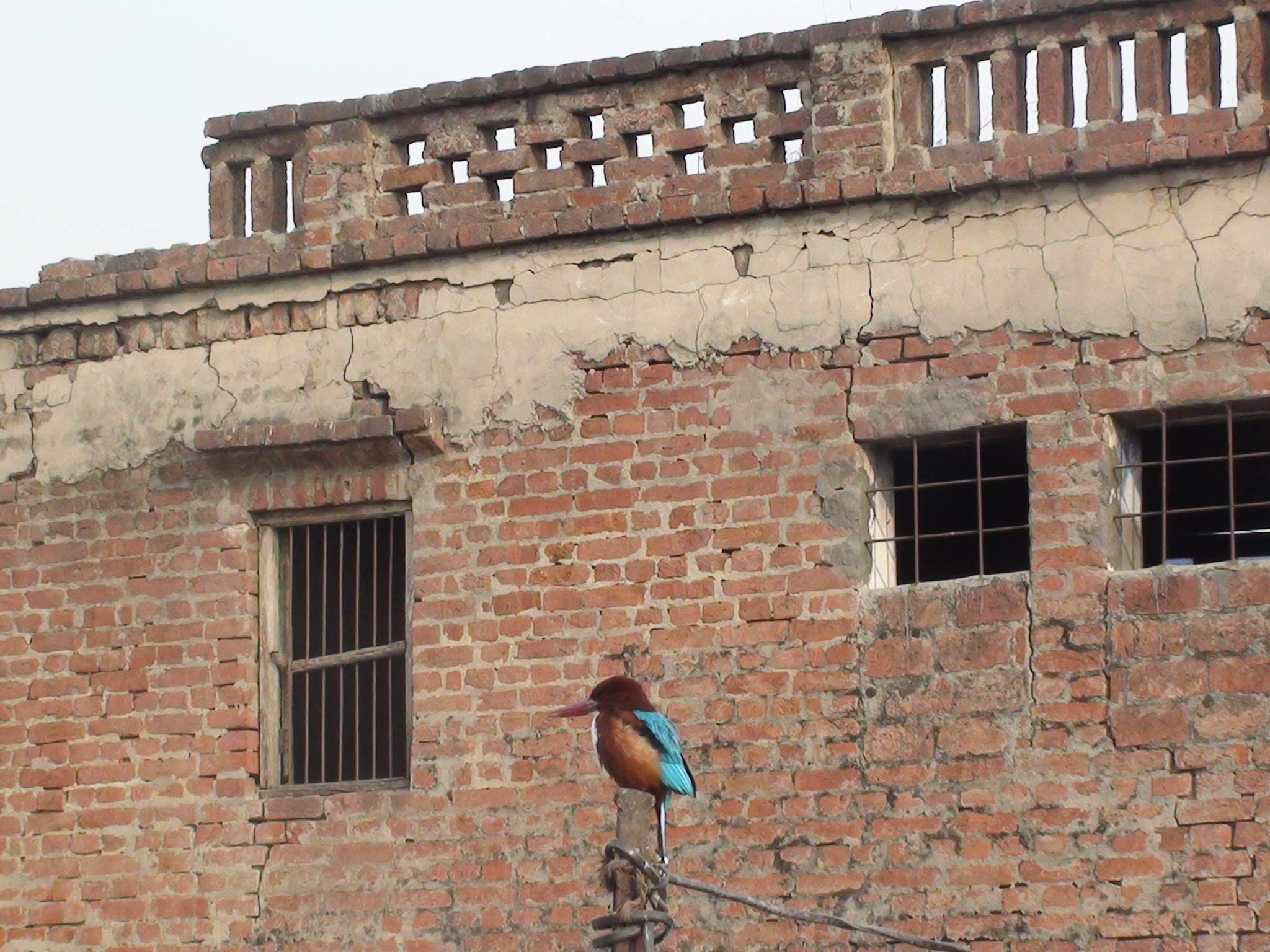 a picture of a old building at Jawan Sikandarpur.